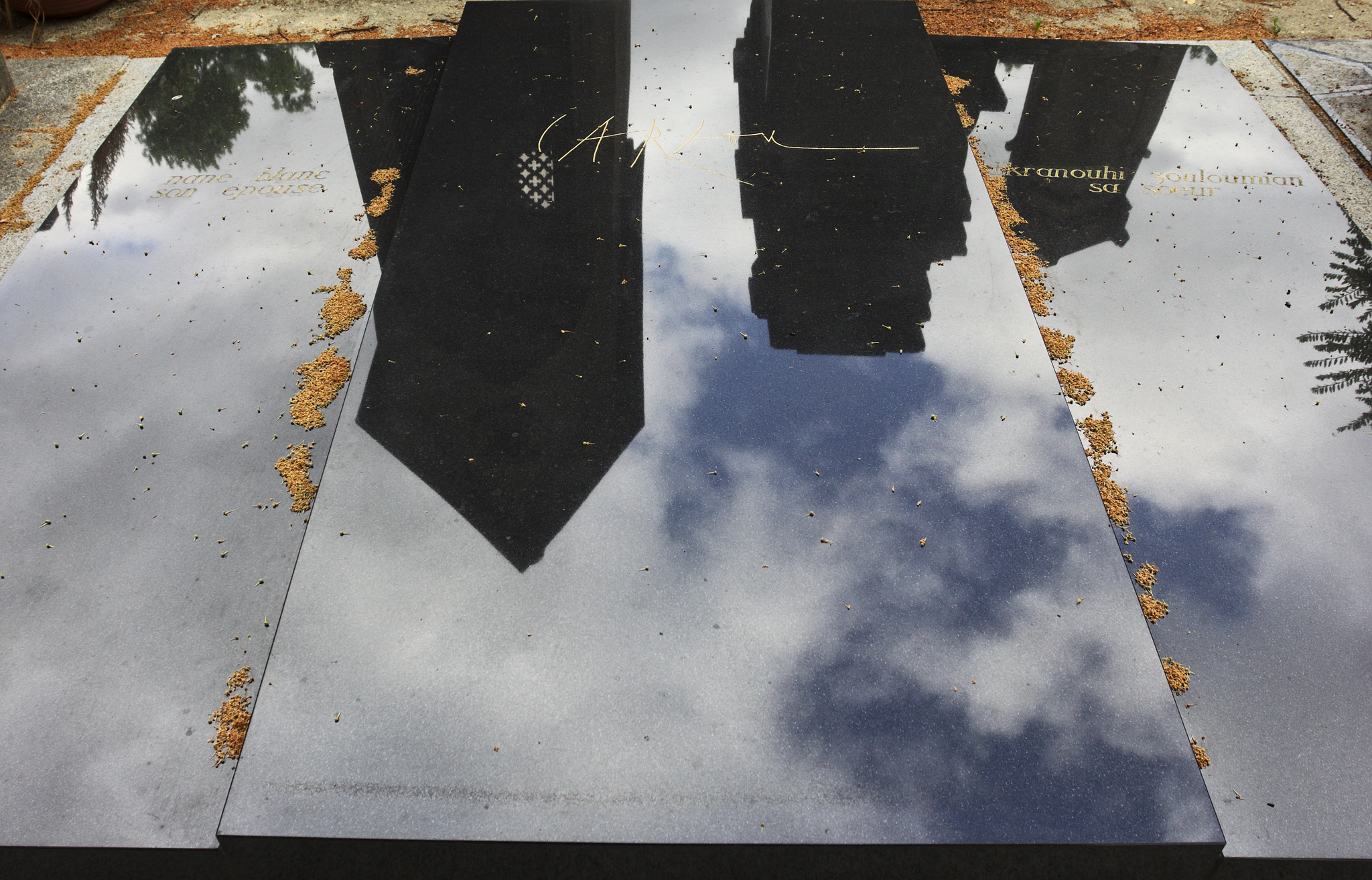 Grave of Jean Carzou on Montparnasse cemetery in Paris (France).